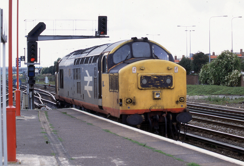 37 371 BR Class 37/3 loco in BR blue with large logos at Eastleigh. Numbering history: D6847, 37147 37371 Scanned from a Fujichrome 35mm slide.